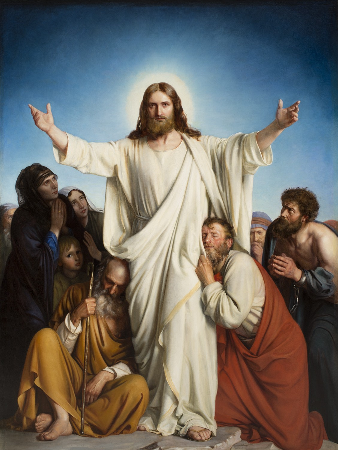 Christus Consolator by Carl Heinrich Bloch